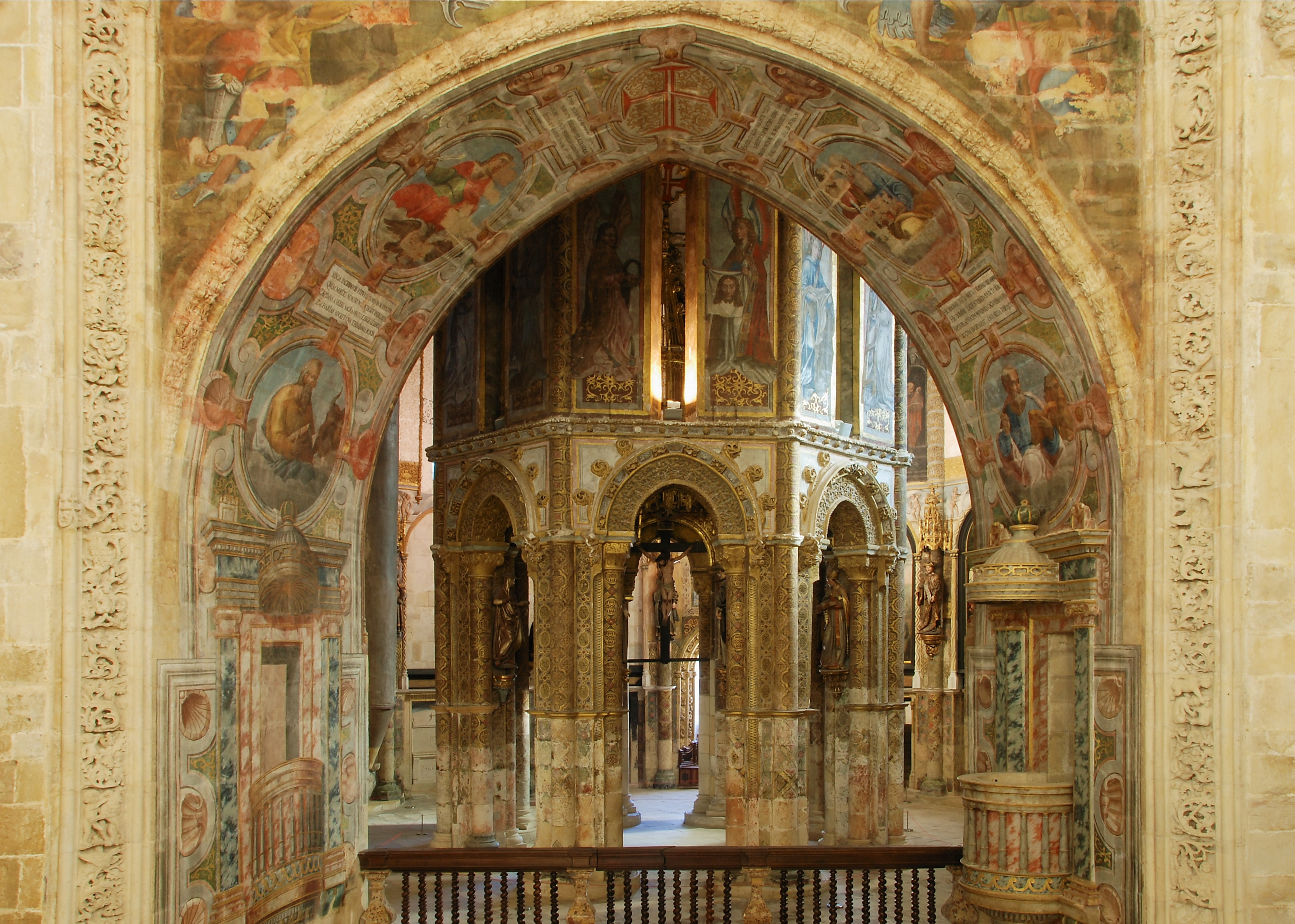 Convent of Christ, Tomar, Portugal. Detail of the "charola" (round church)